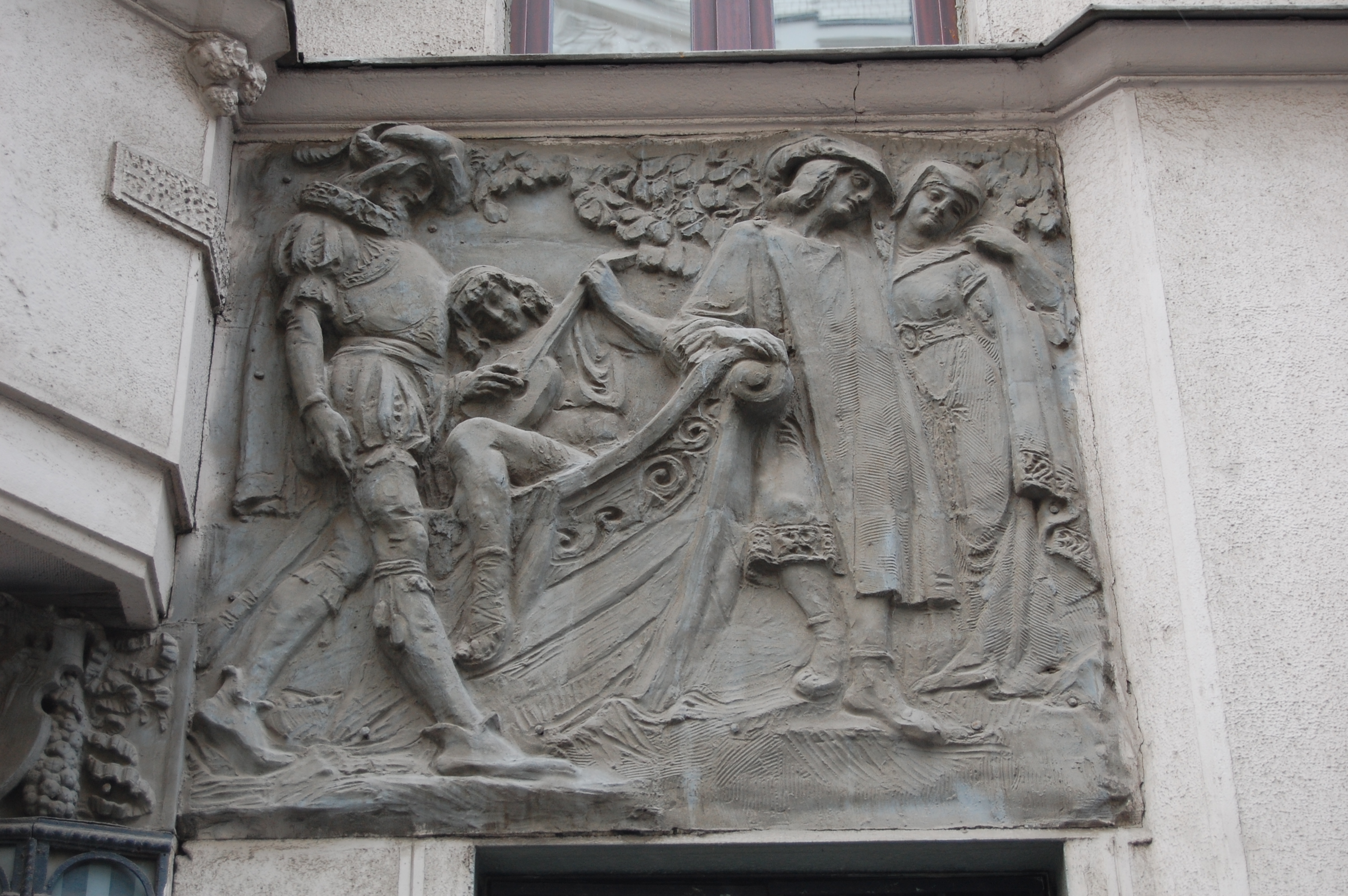 Zhuchkova House in Moscow. Bolshoy Nikolopeskovsky lane. Relief by Valentin Dubovsky (1877-1931)